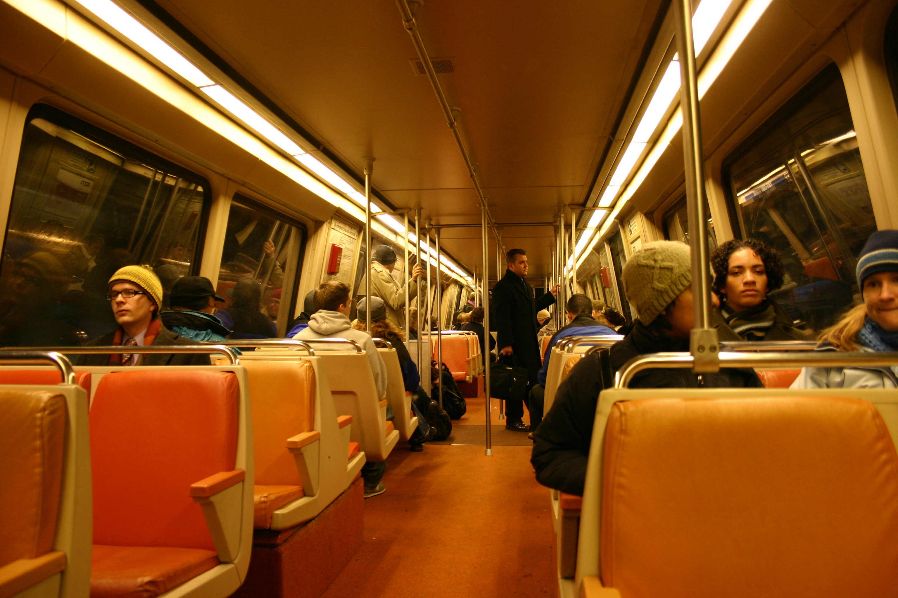 Interior of a train of the Washington metro